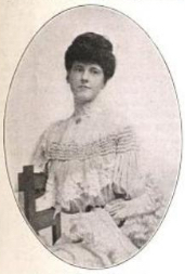 A young white woman, dressed in a light-colored lacy dress with a high collar, hair in an updo, portrait in an oval frame.